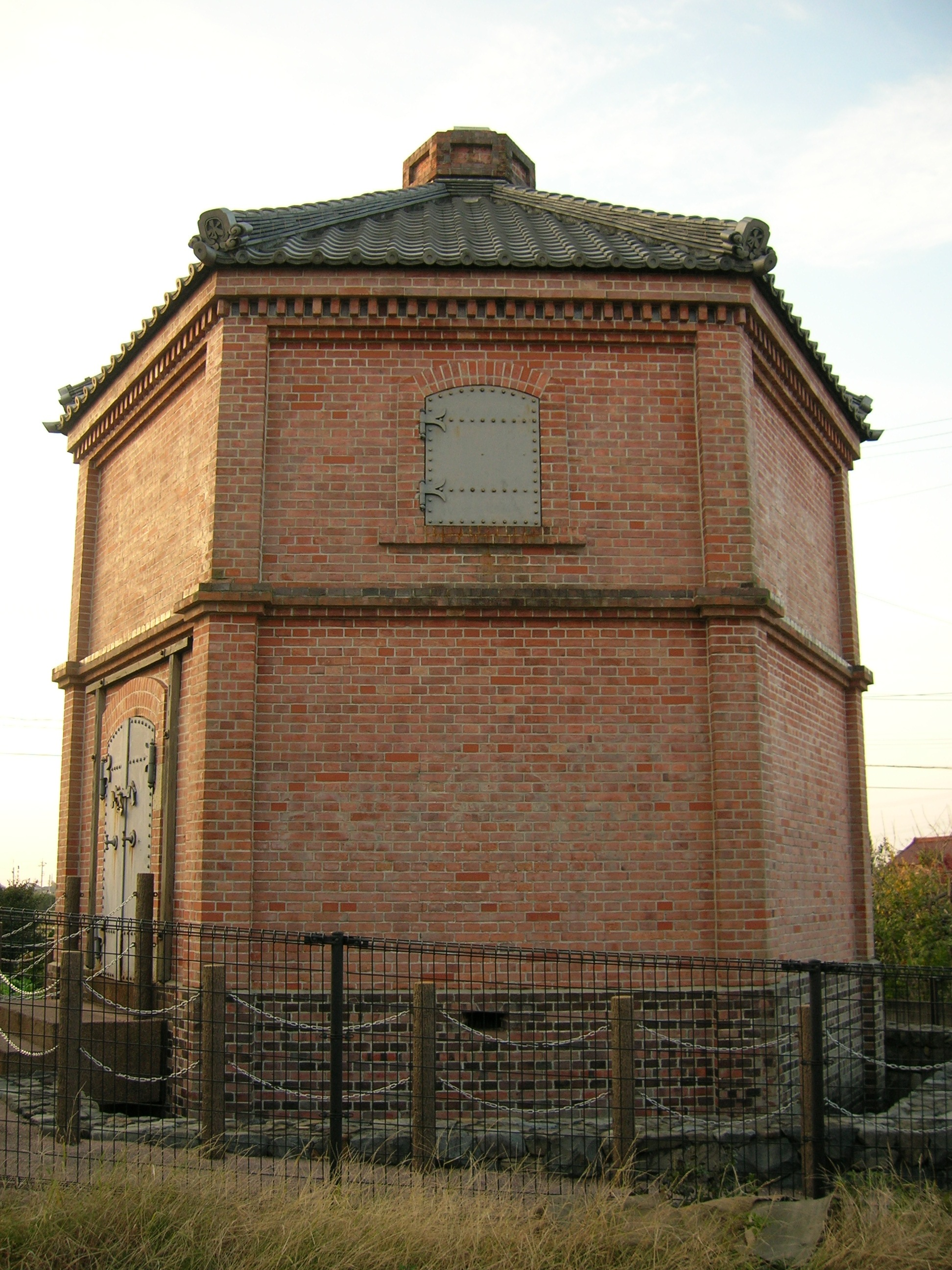 Odakara Rokkaku Renga-gura (Ôdakara hexagonal brick warehouse), build 1908. Loc: Tobishima village, Ama District, Aichi Prefecture, Japan. 大宝六角れんが蔵 撮影場所 愛知県海部郡飛島村